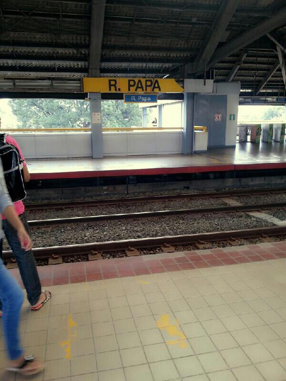 Platform area of LRT R. Papa Station